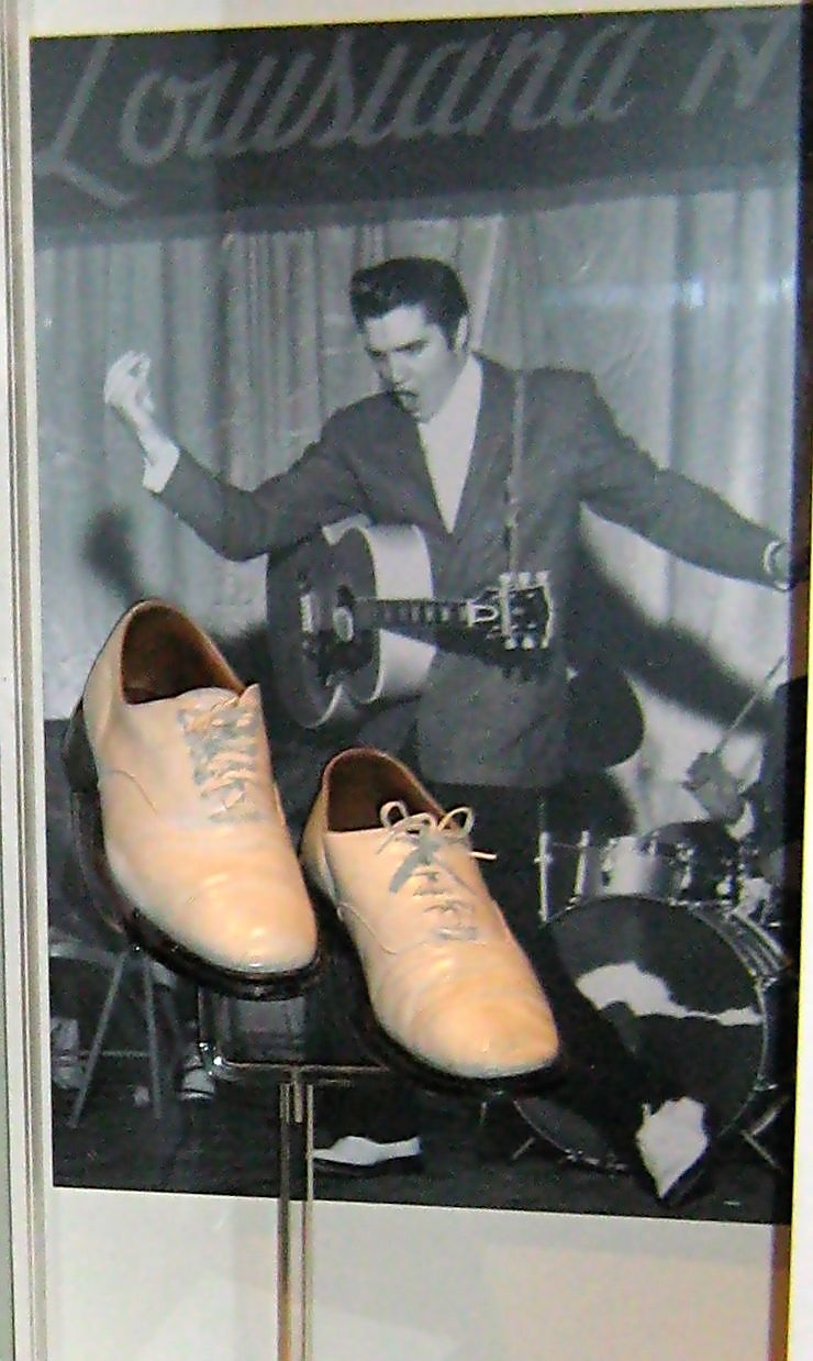 A pair of shoes, that Elvis Presley was wearing one of the 50 times he was at the "Louisiana Hayride" from october 1954 to december 1956. The shoes are a part of the exibition at "The Beatles Story" in Liverpool. July 2011.